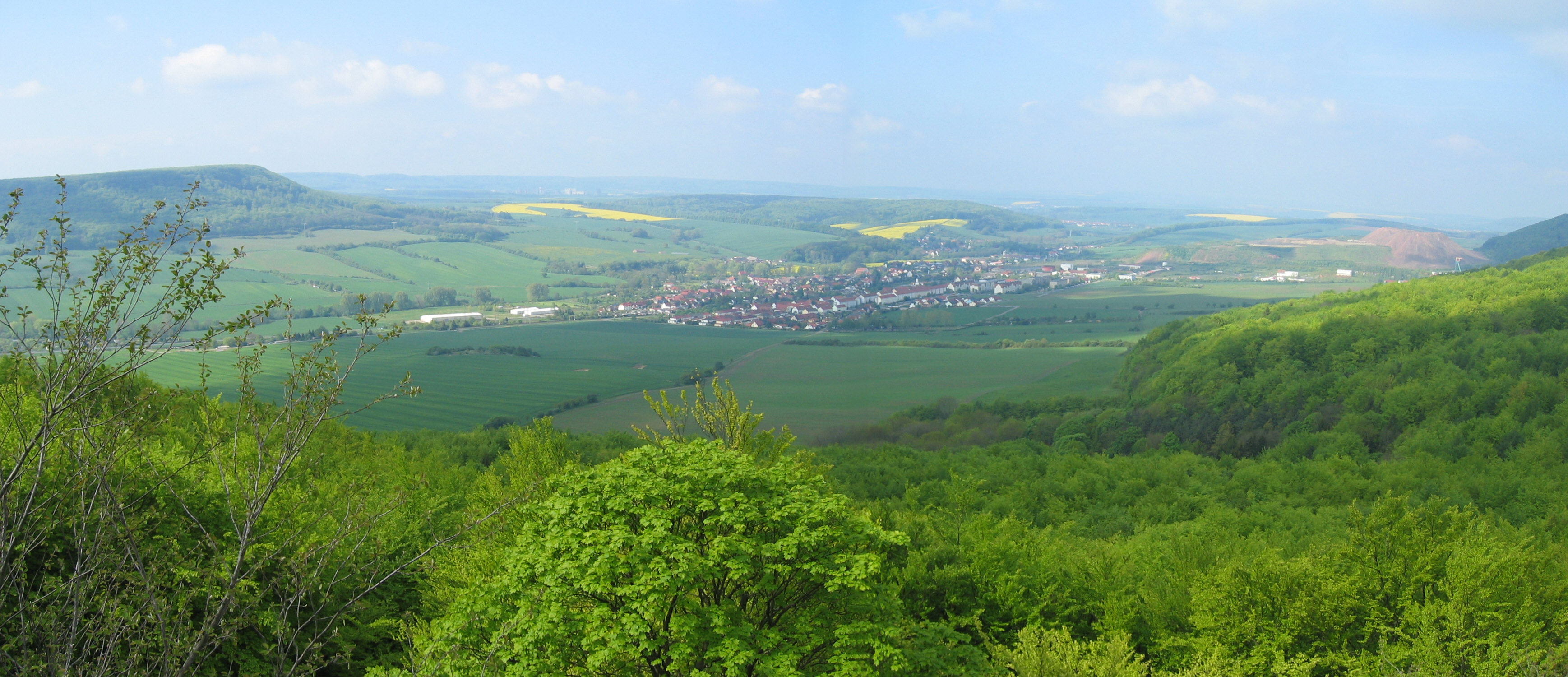 Blick auf Sollstedt vom Gebra Kopf